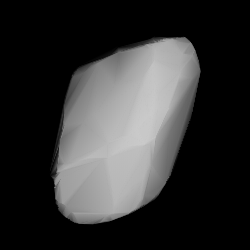 3D convex shape model of 1390 Abastumani, computed using light curve inversion techniques. J. Hanuš, J. Ďurech, M. Brož, B. D. Warner (June 2011). "A study of asteroid pole-latitude distribution based on an extended set of shape models derived by the lightcurve inversion method". Astronomy and Astrophysics 530: A134. ISSN 0004-6361. arXiv